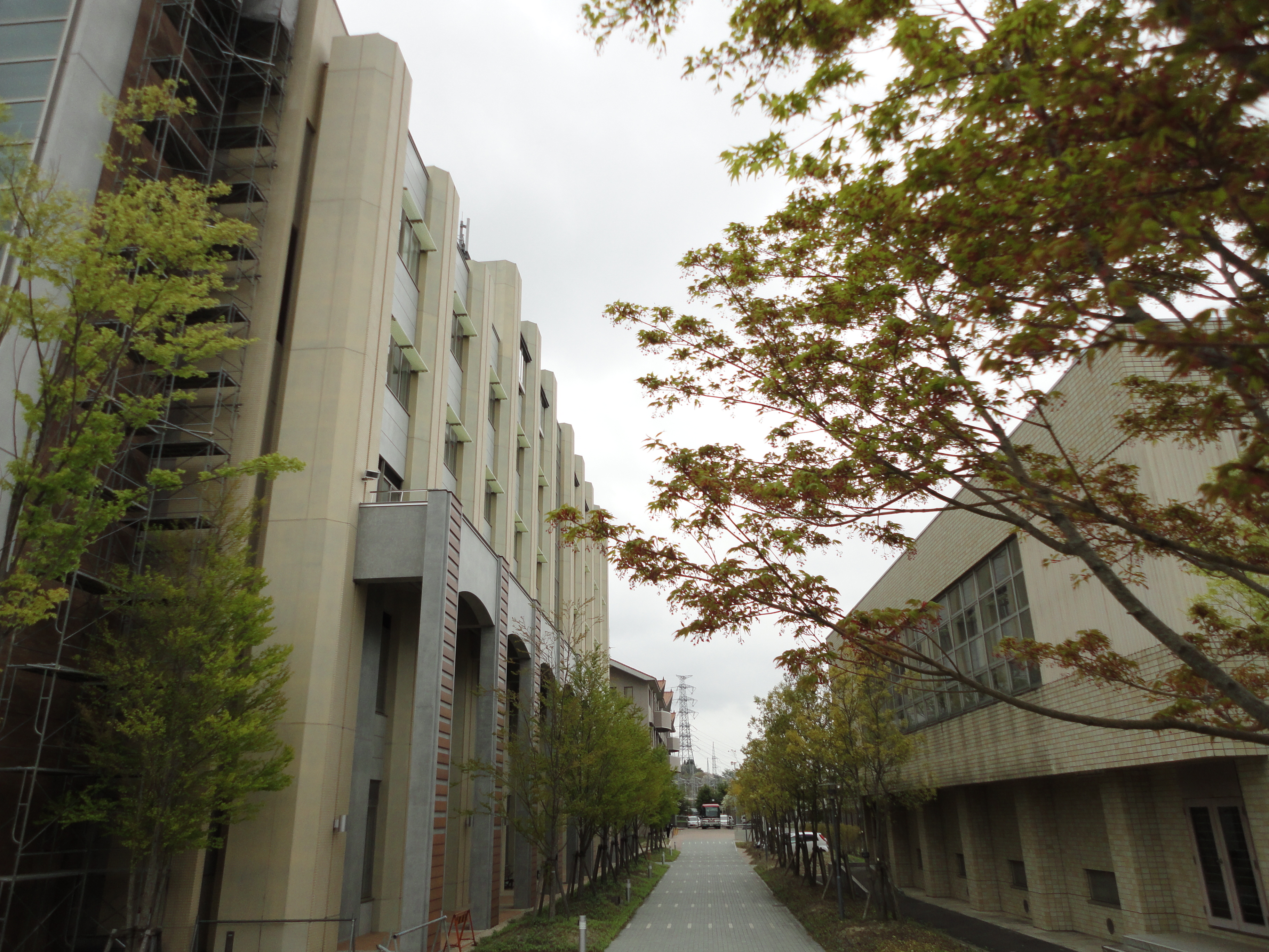 Sendai Shirayuri Women's College